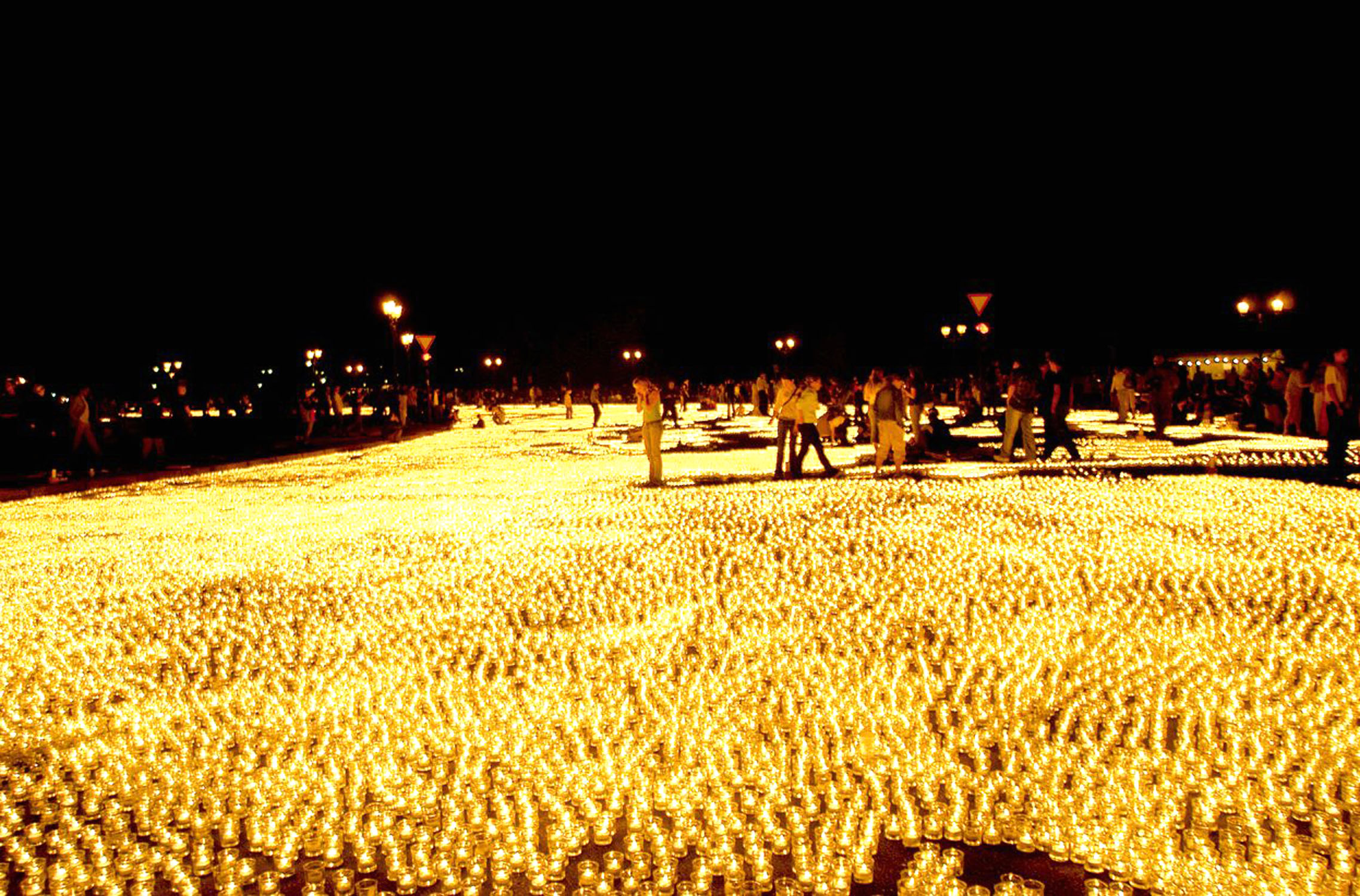 Photography of "Million Lichterstadt 2004